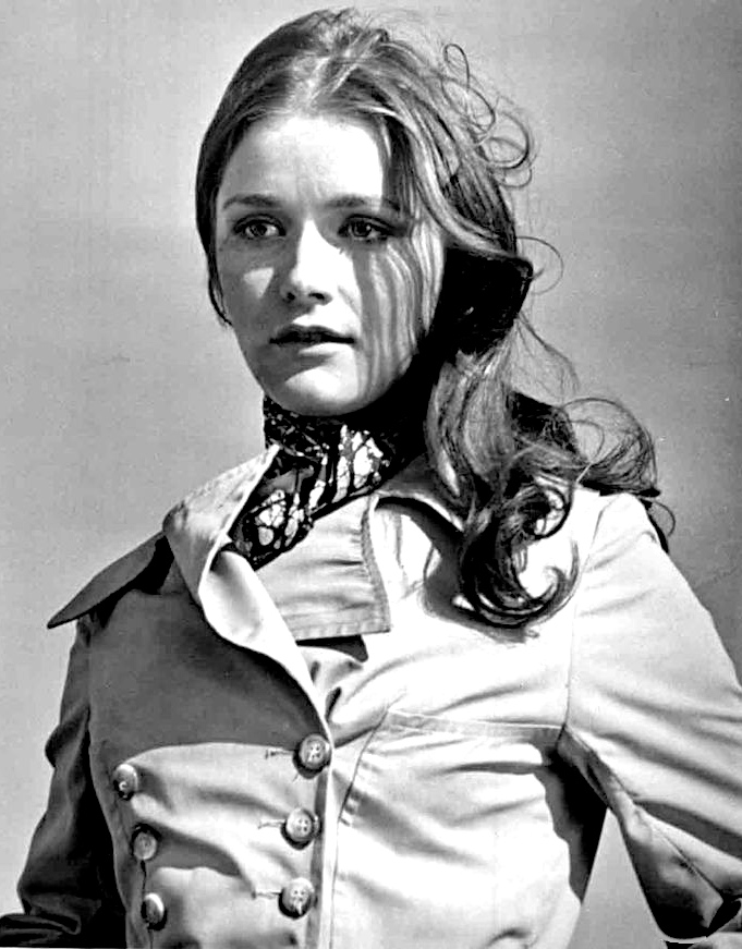 Margot Kidder in a publicity photo for Quackser Has a Cousin in the Bronx (1970).